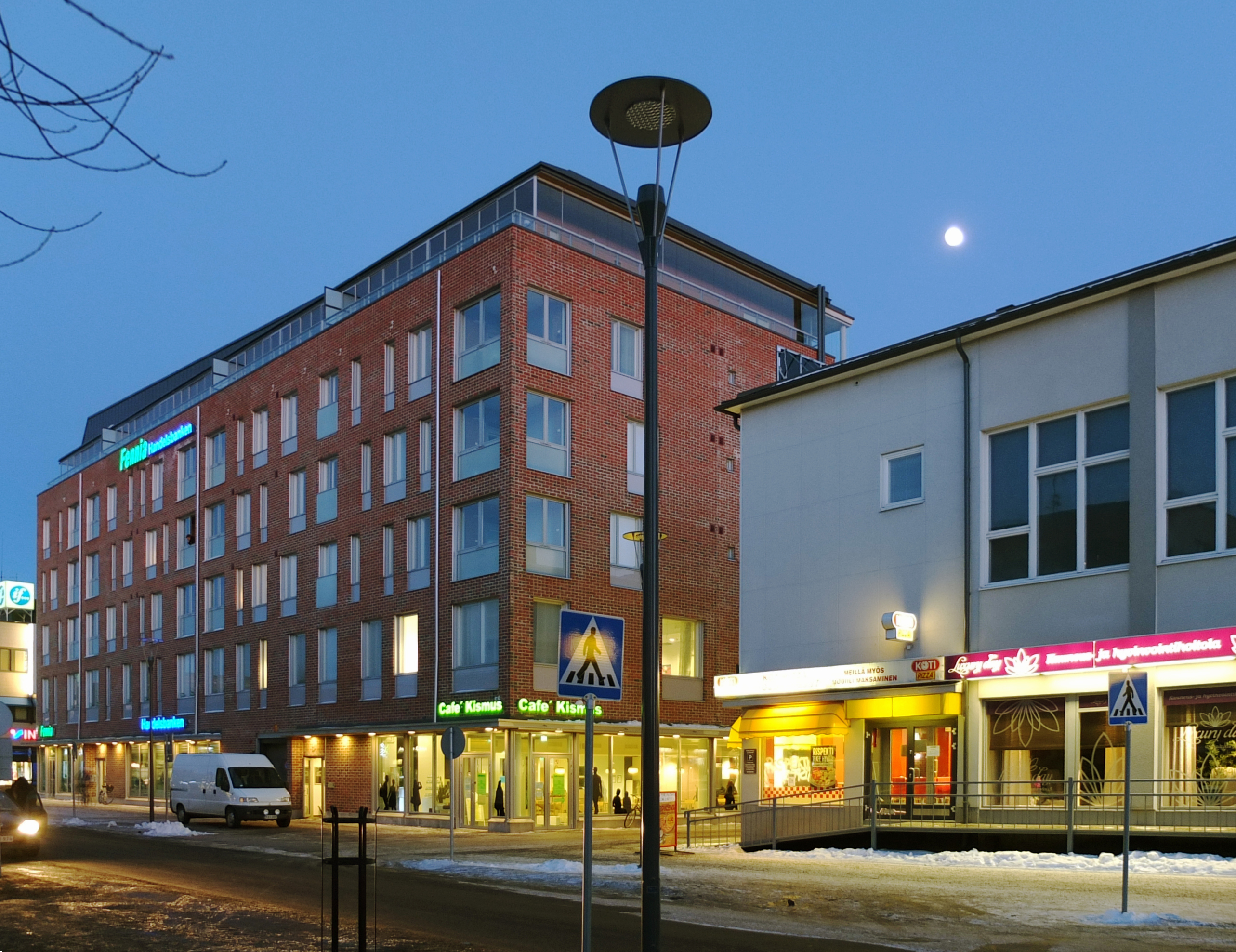 New building built to replace old market square in Seinäjoki, Finland.